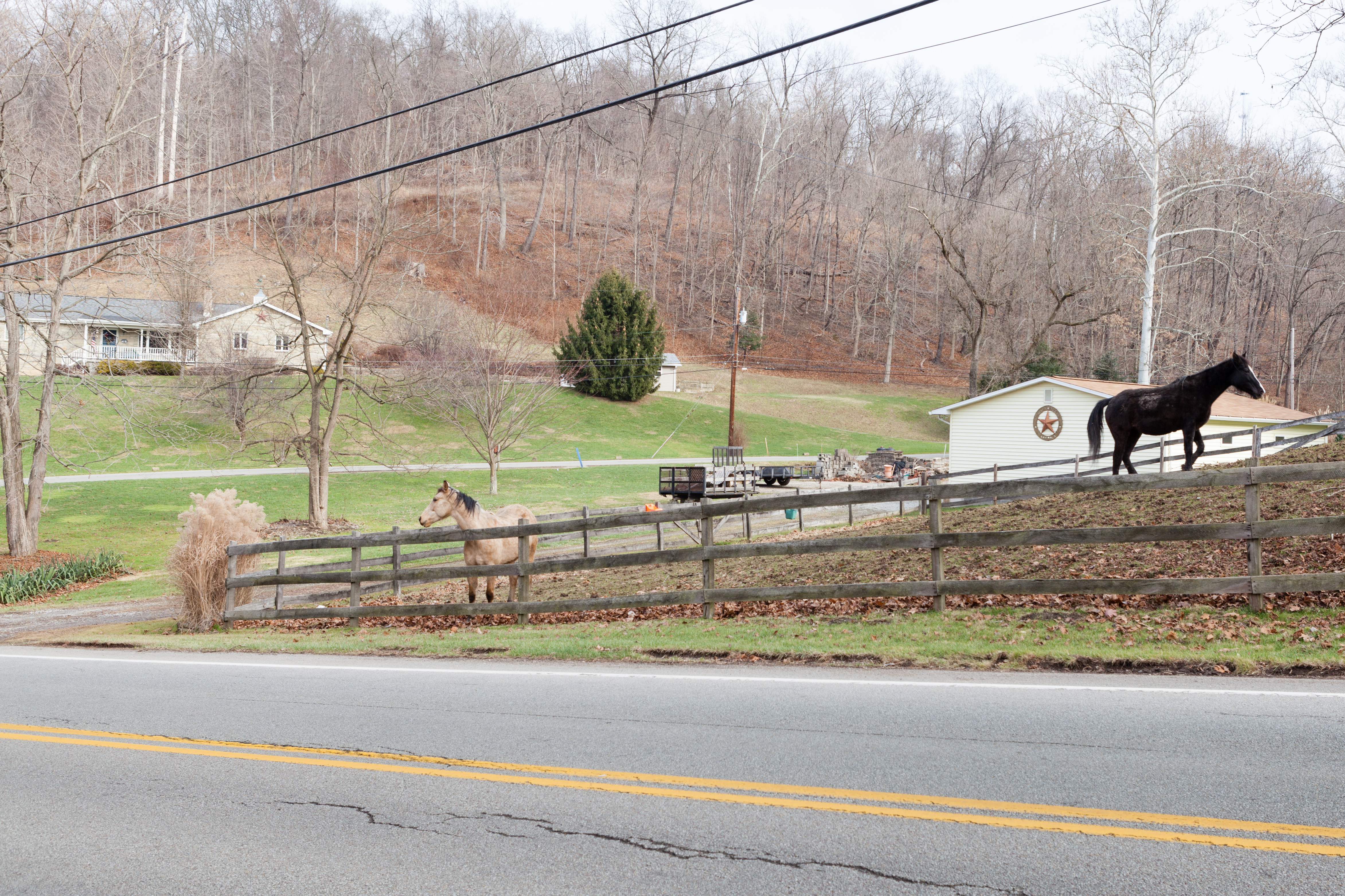 Twilight Borough, Pennsylvania, horses in pasture near the intersection of State St and Cherry Ln. Looking east.